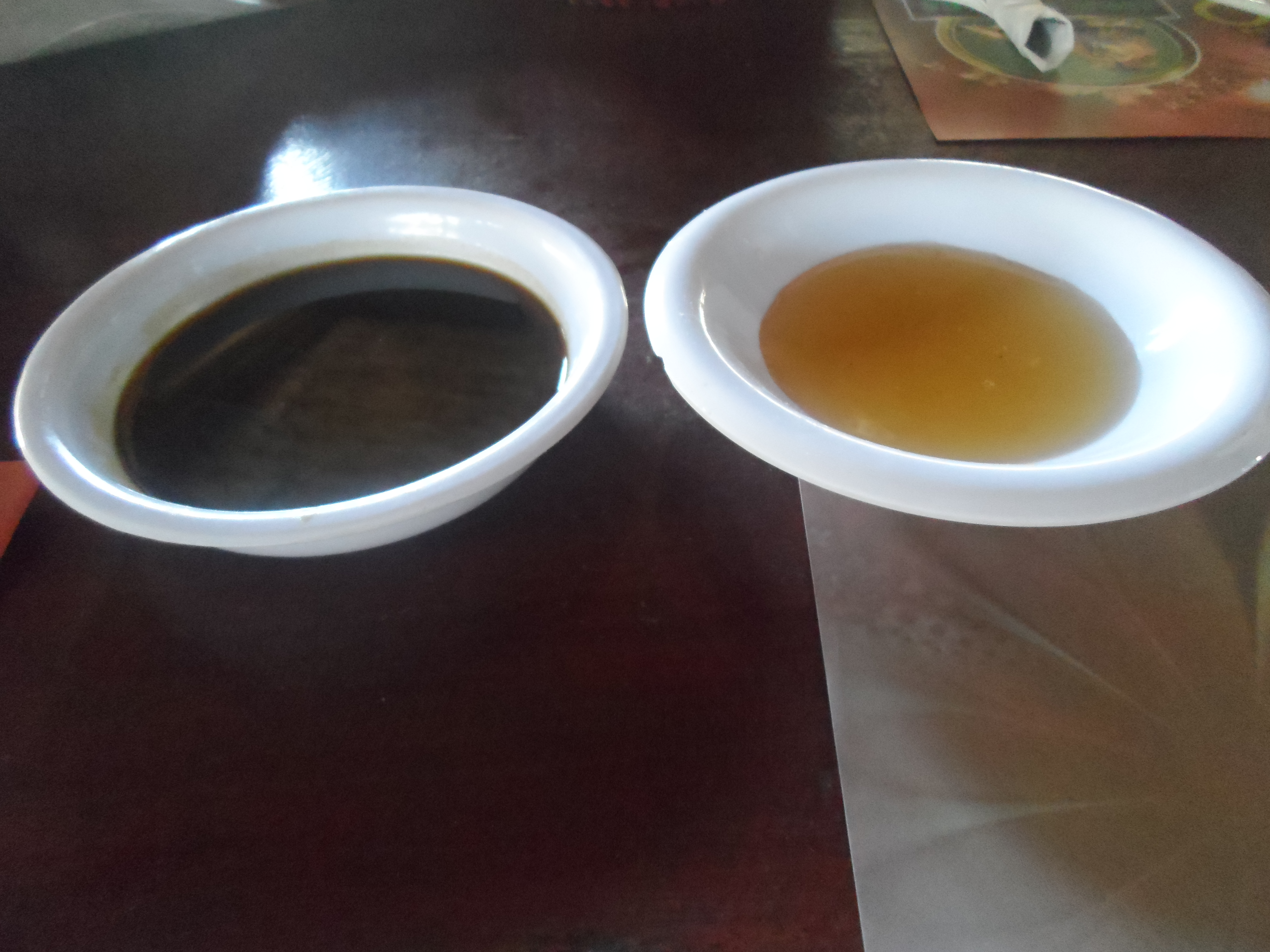 This is an image of food from Egypt